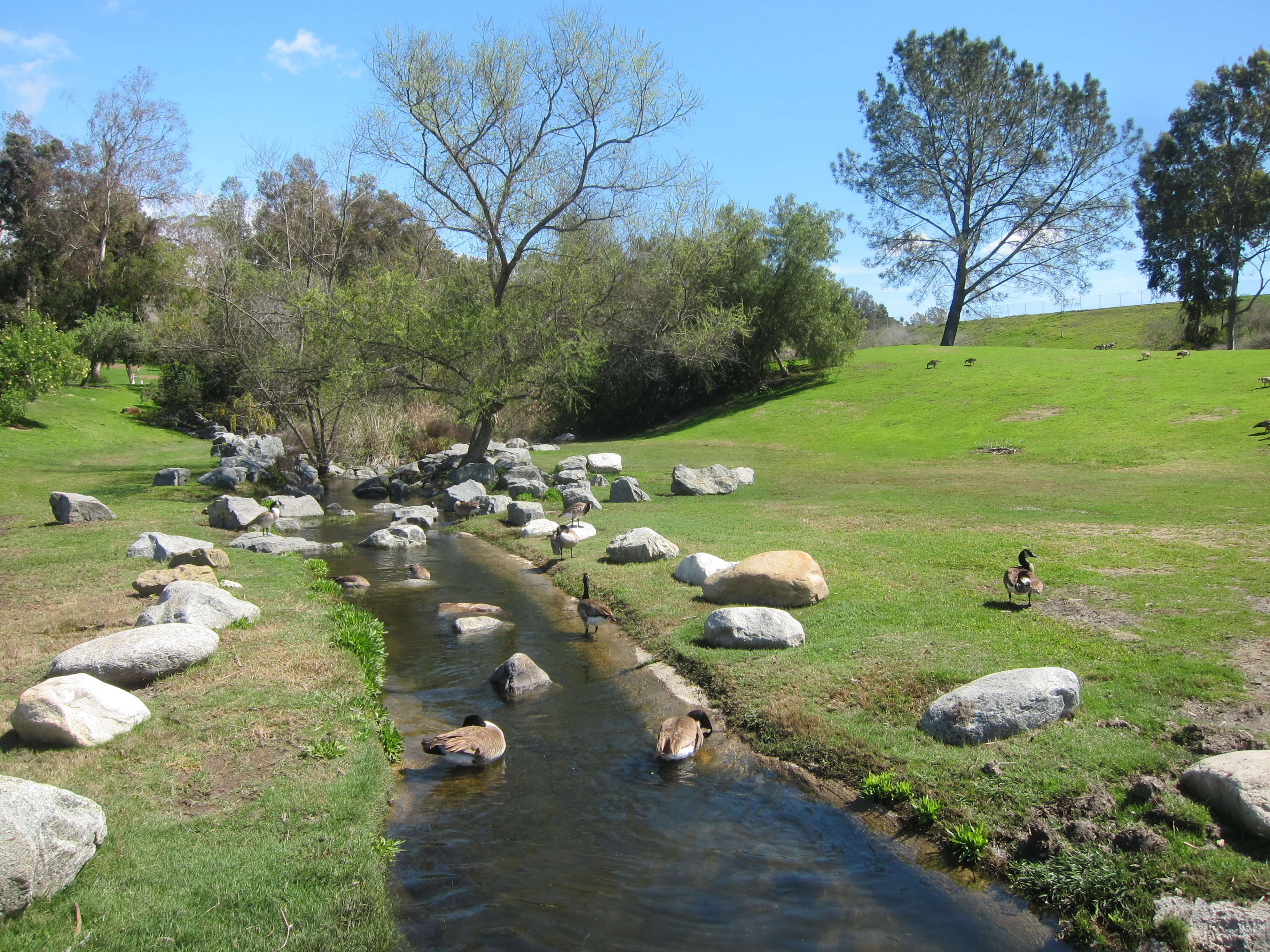 Sulphur Creek below the dam in Laguna Niguel Regional Park, CA